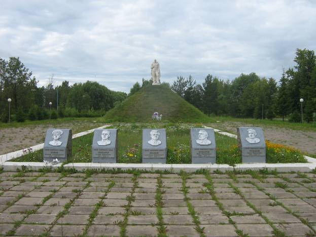 World War II memorial (1975) in Sandovo, Russia.